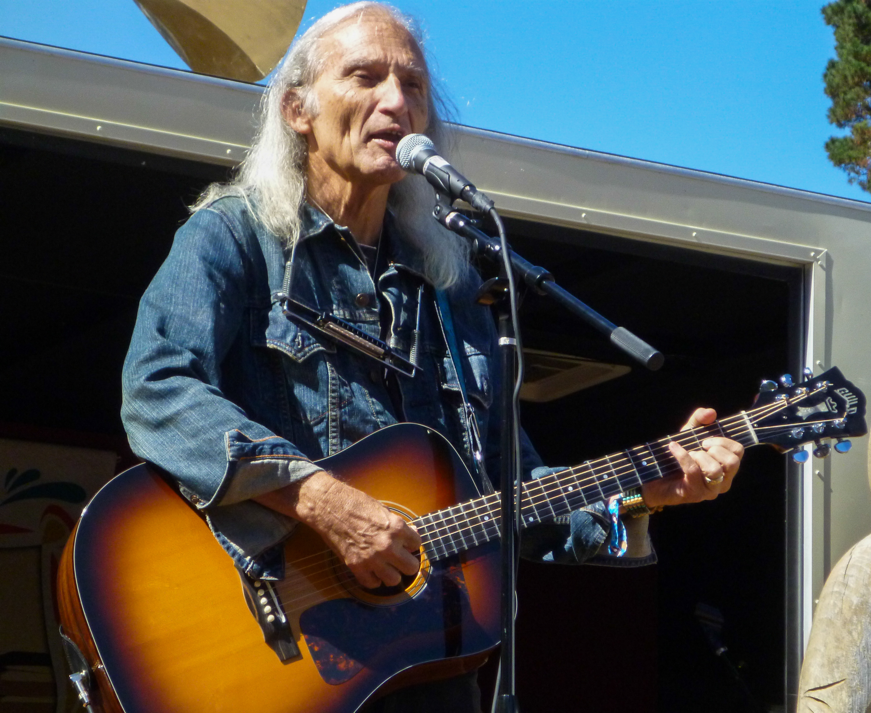 Jimmie Dale Gilmore performs at the 2014 Hardly Strictly Bluegrass festival.